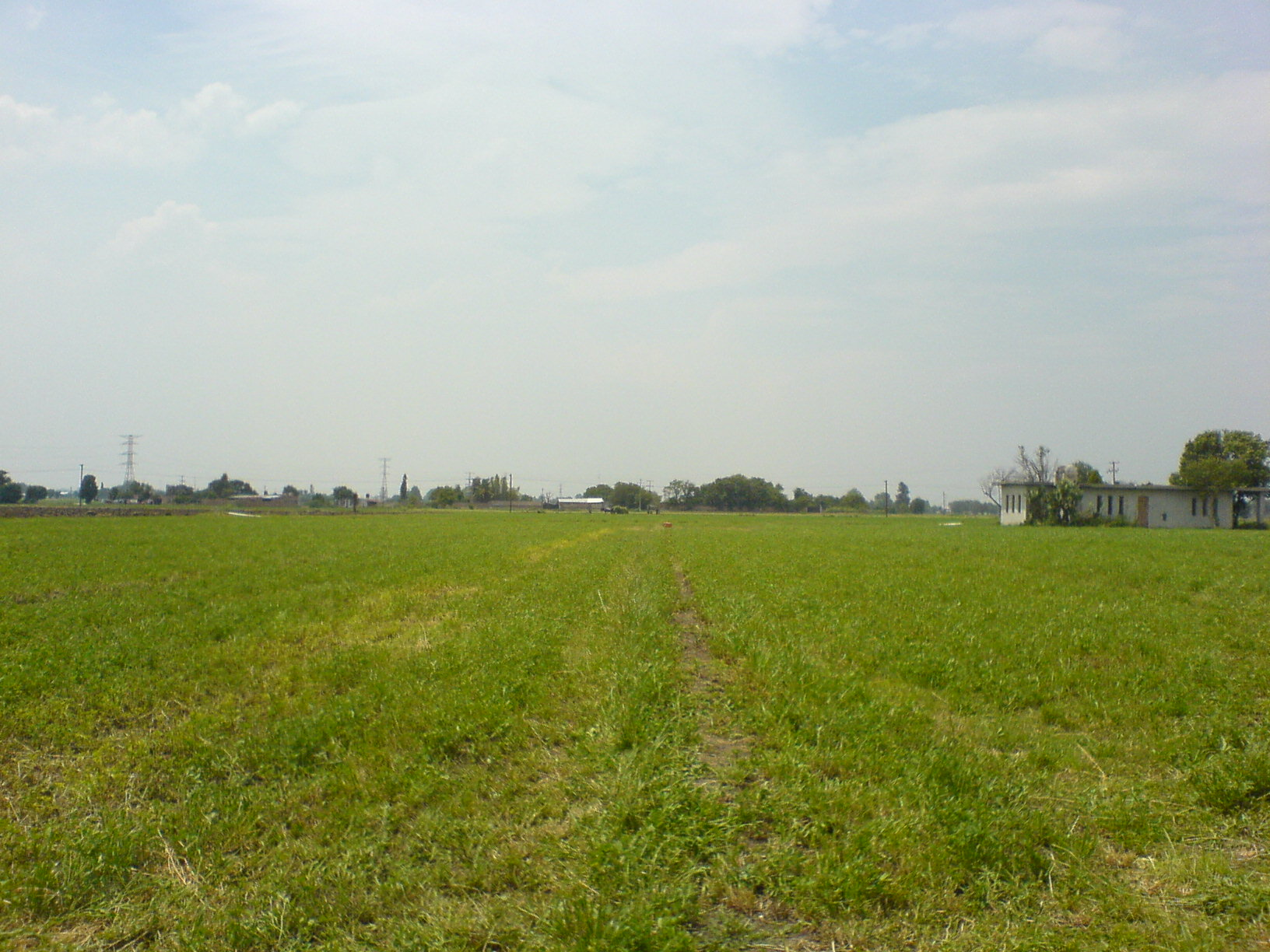 Farmland in the Bajío, Celaya.